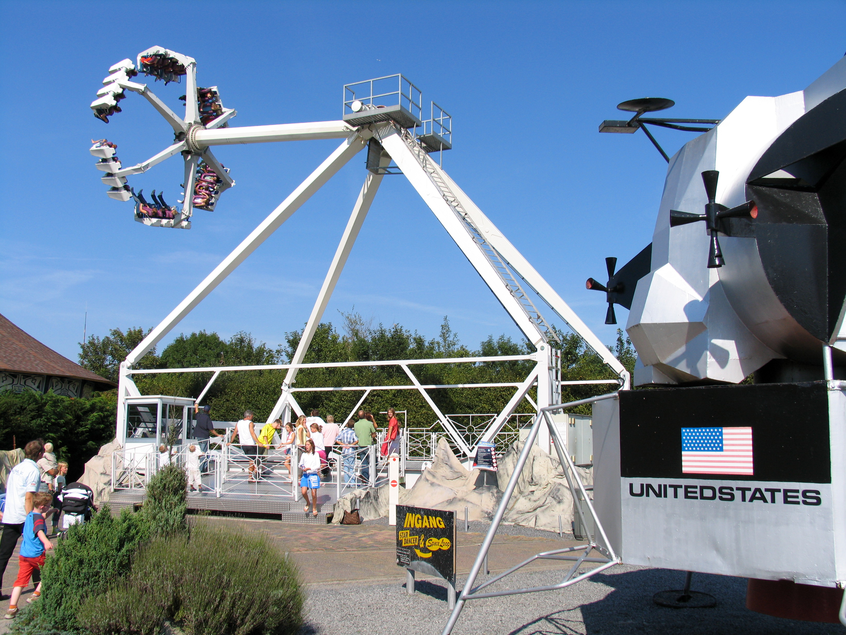 KMG Afterburner “Lunatic” at Drievliet